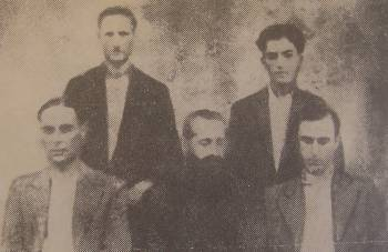 Greek priest Efstathios Ktenas among 5 arrested for organizing demonstrations of winemakers on the island of Lefkada, 1935